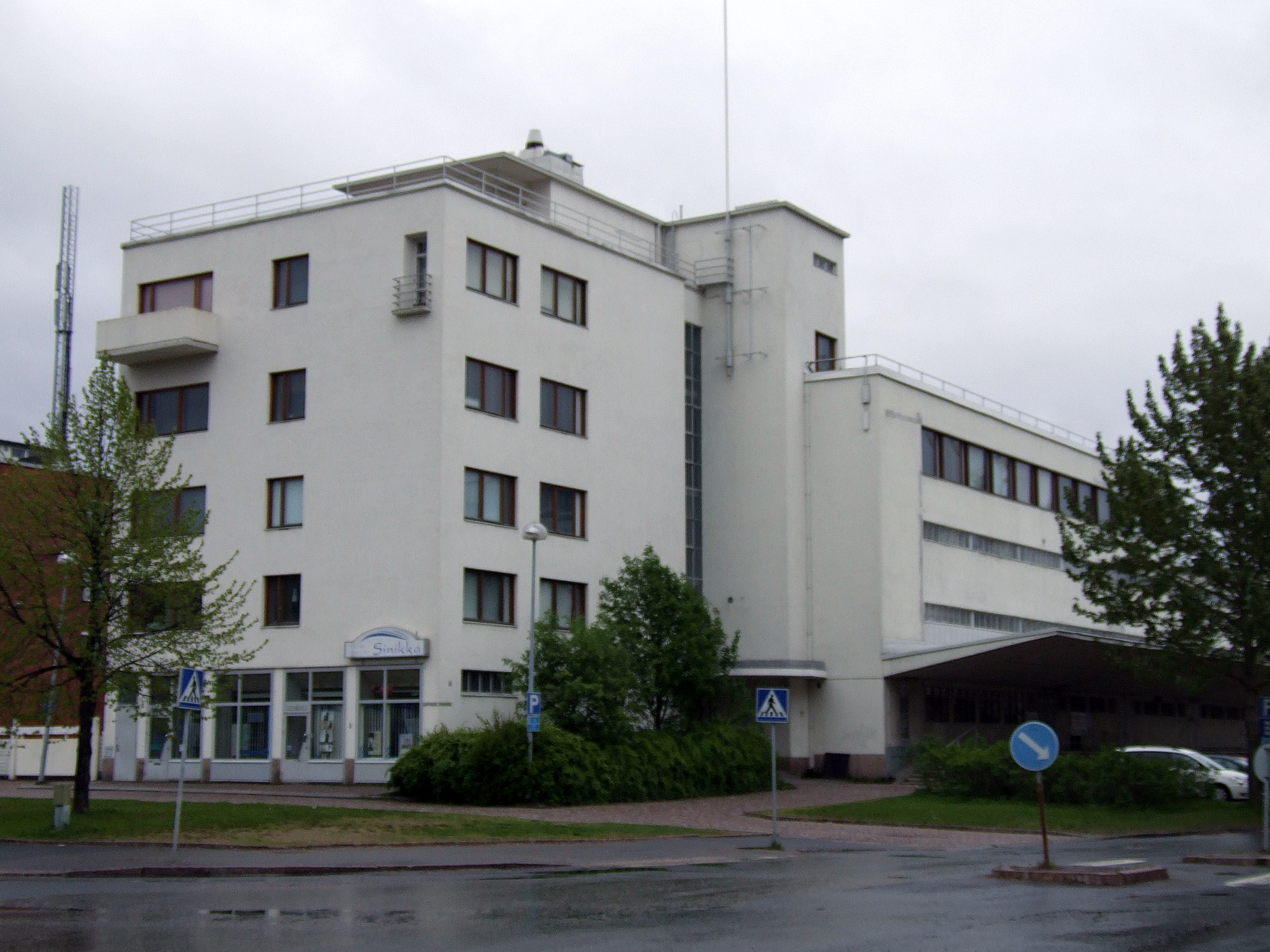 SOK Cooperative's Office Building in Kansankatu 47, Oulu was designed by architect Erkki Huttunen in 1937.